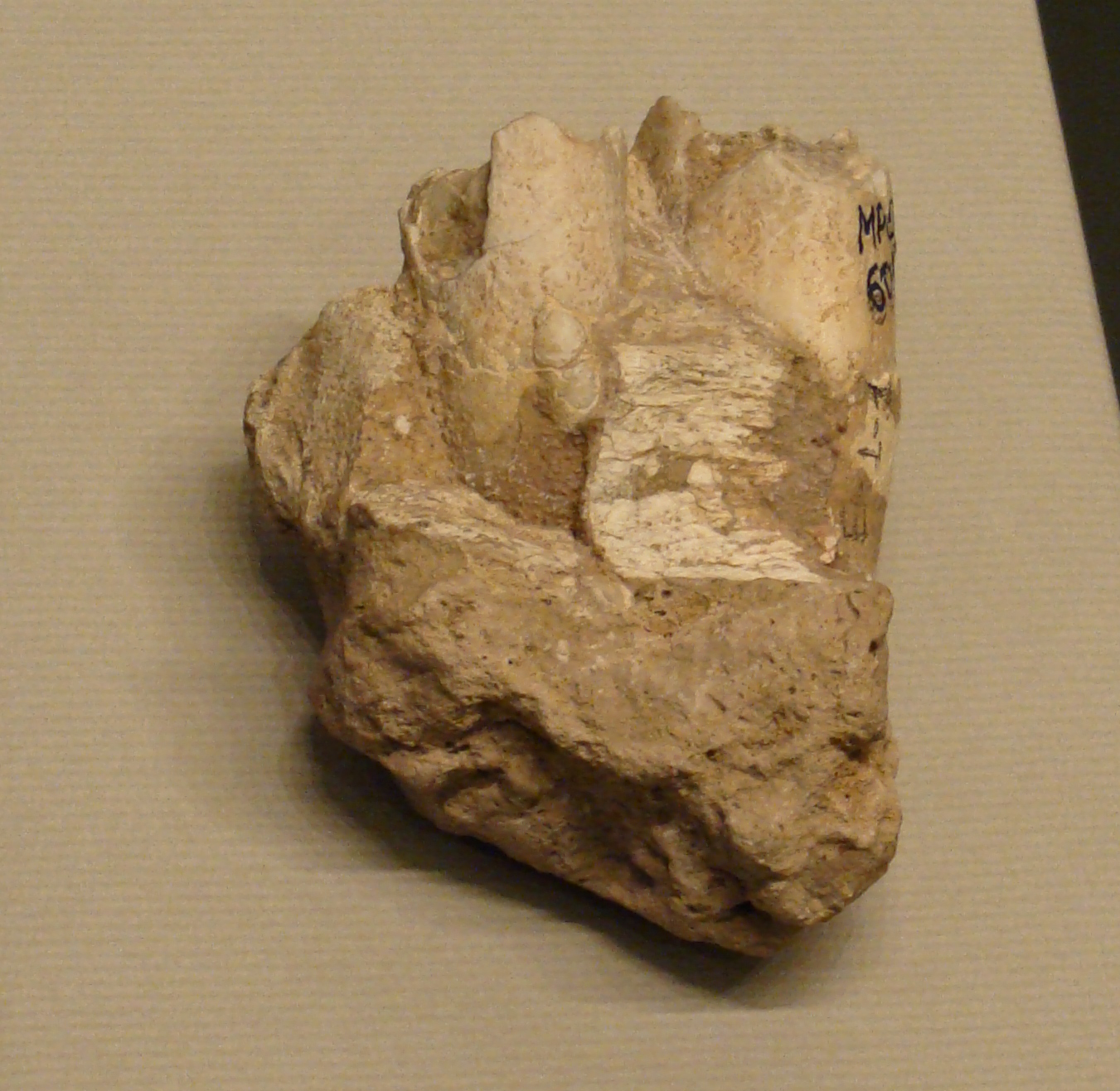 Macrauchenia patachonica tooth in the exhibition Darwin observador, Darwin naturalista in CosmoCaixa, Barcelona.